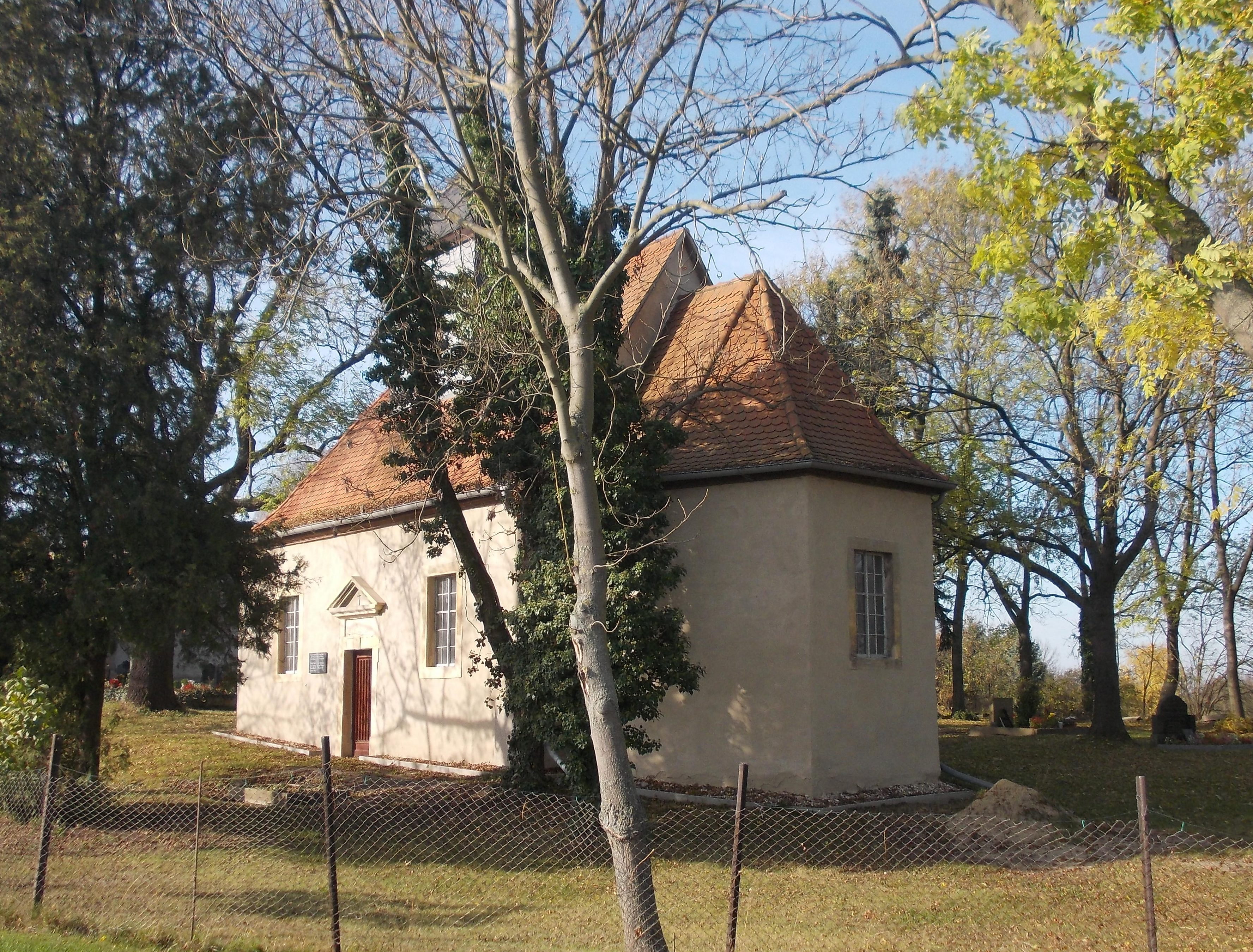 Krimpe church (Salzatal, district: Saalekreis, Saxony-Anhalt)